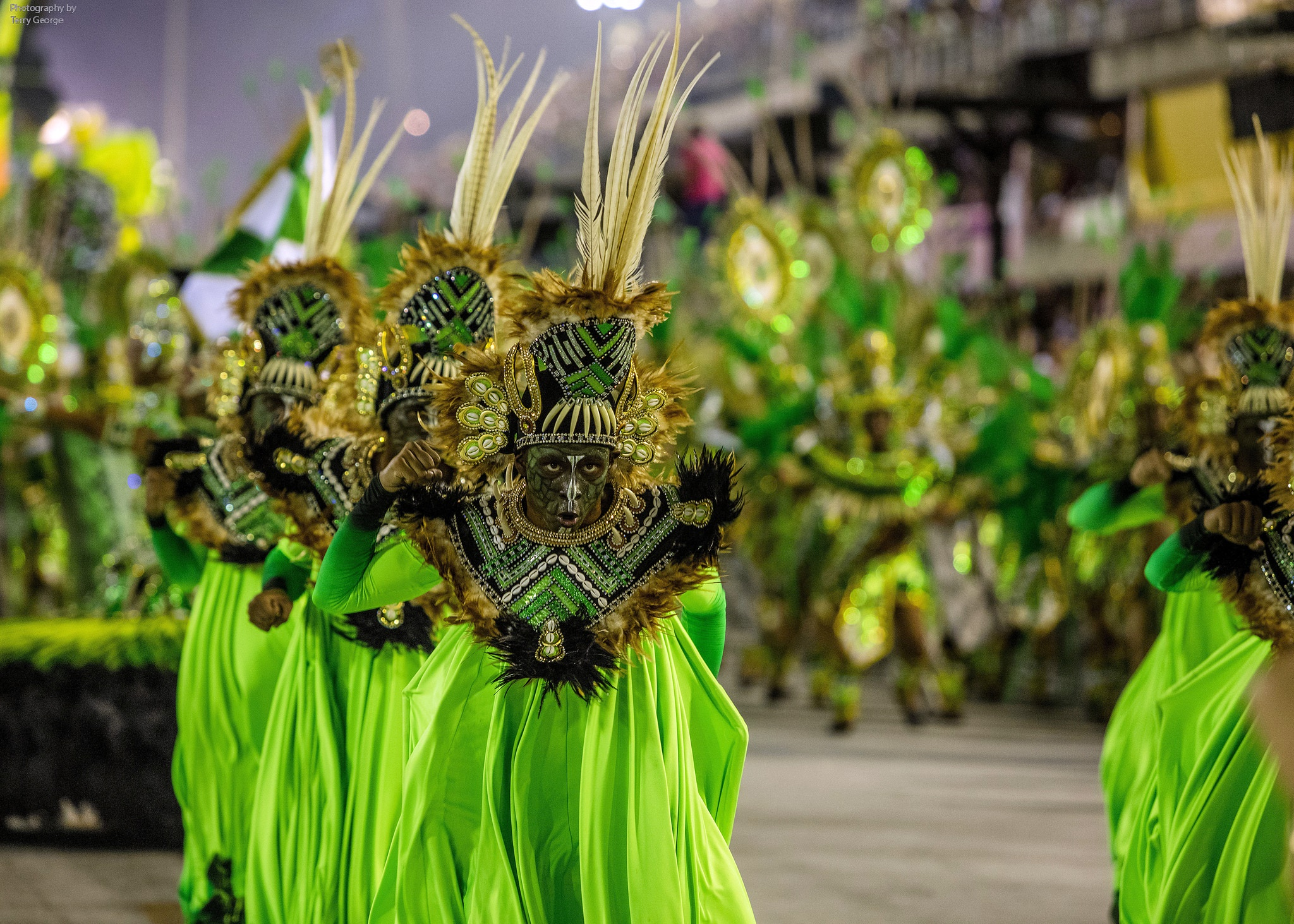 Rio Carnival 2016 By Terry George